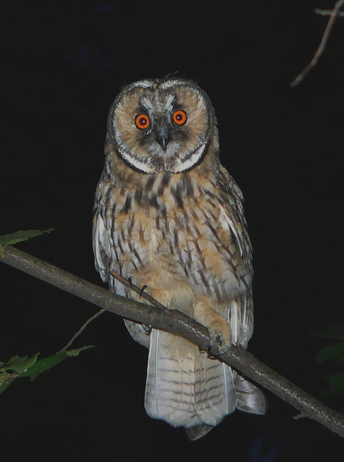 young Long-eared owl (Asio otus), surroundings of Warsaw, Poland